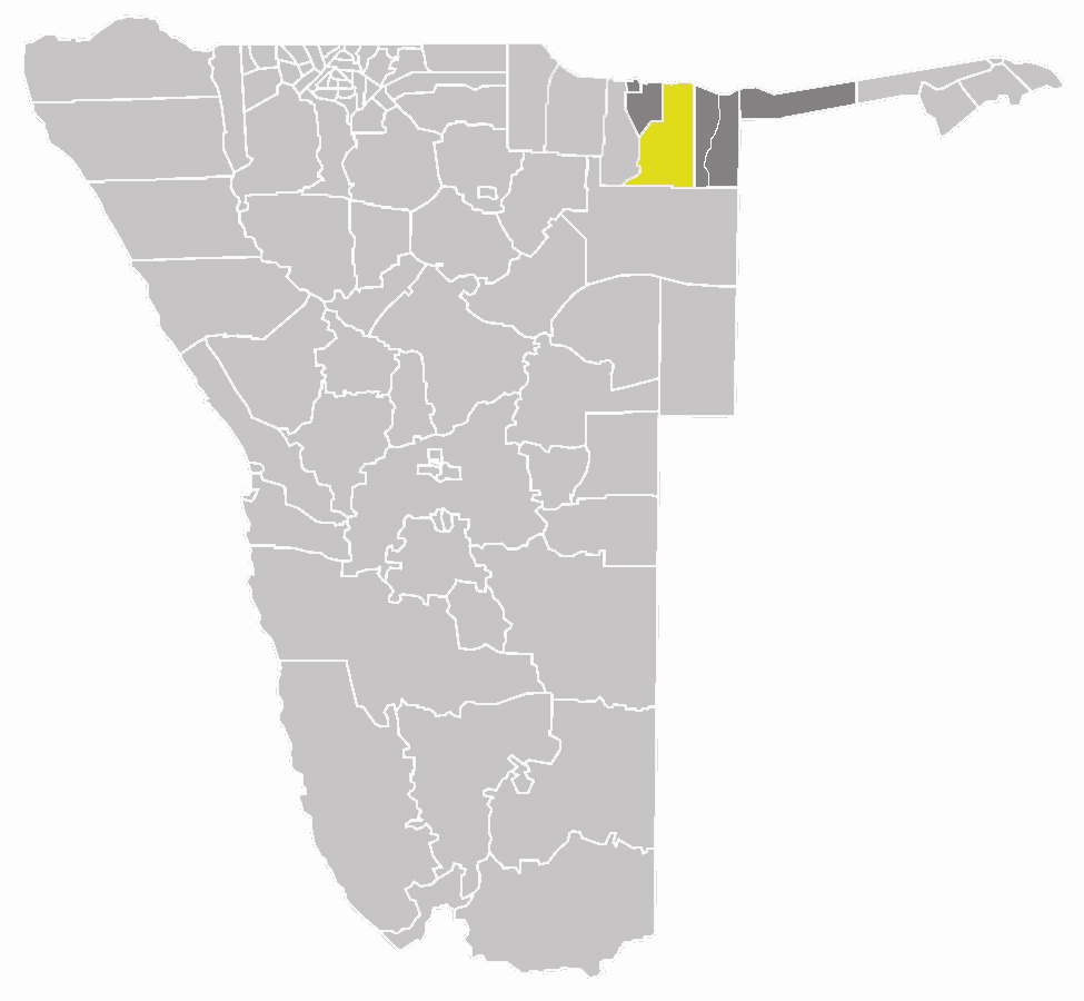 map of the Mashare constituency within the Kavango region, Namibia